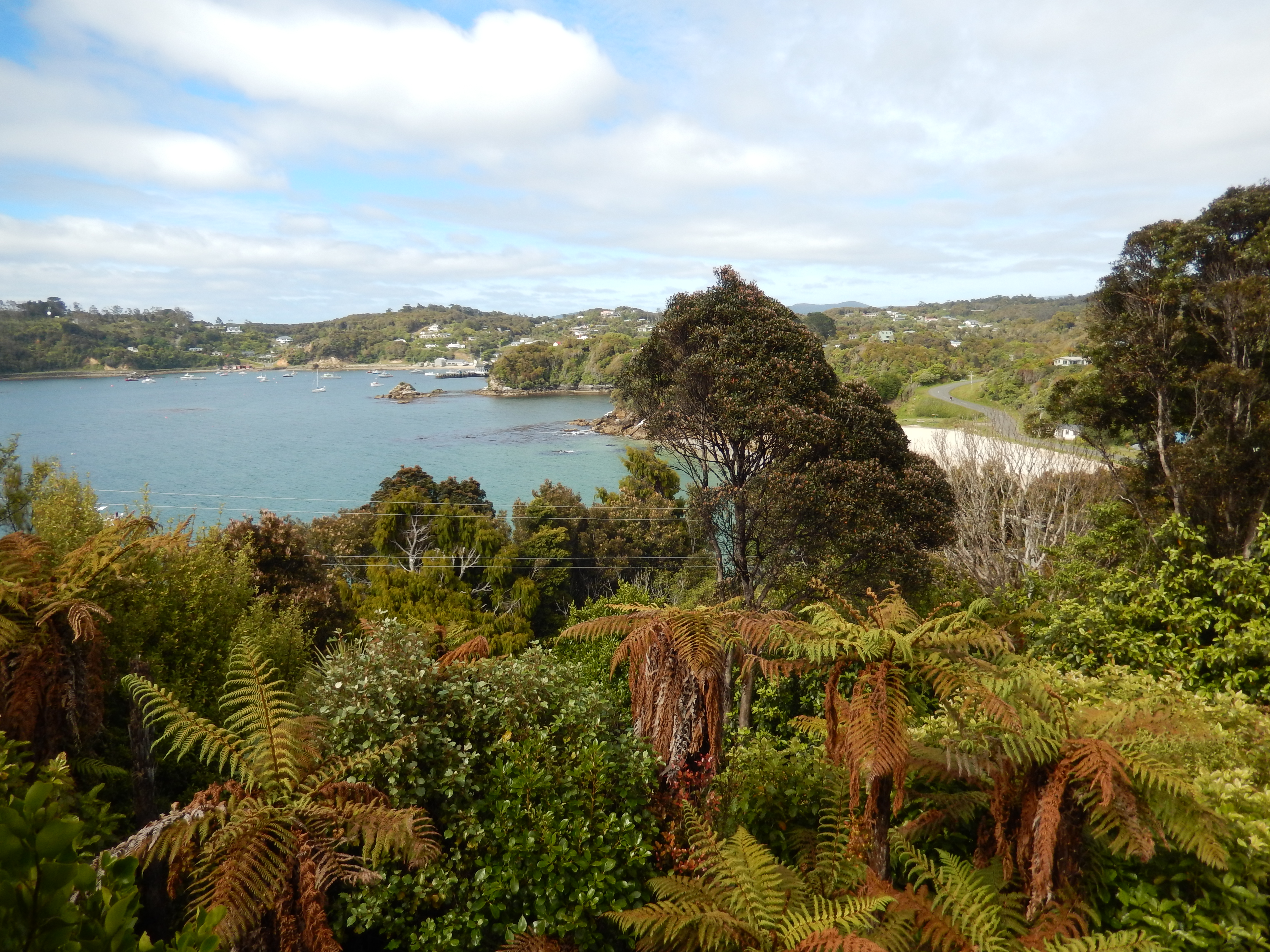 Halfmoon Bay, Stewart Island from Moturau Moana Native Gardens.